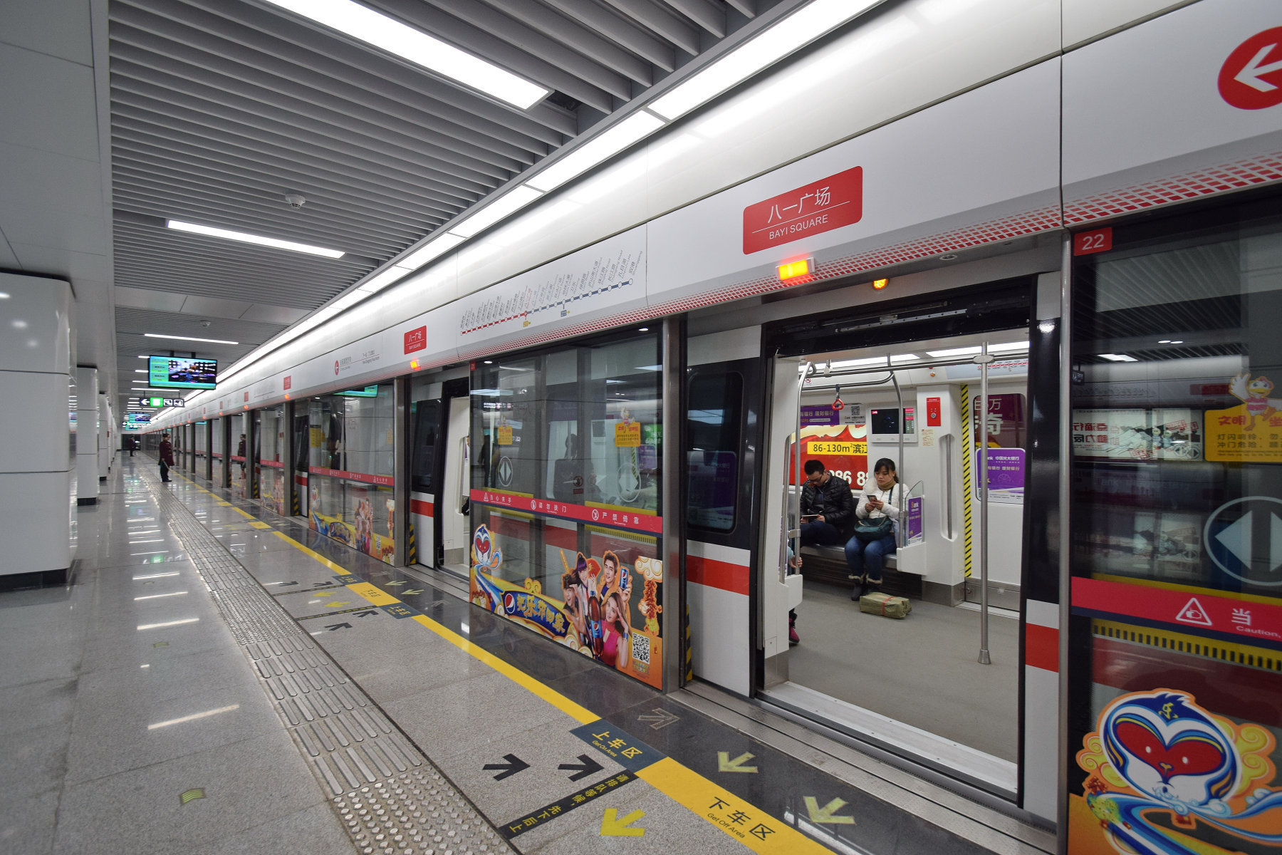 Nanchang Metro Line 1 Train at Bayi Square Station